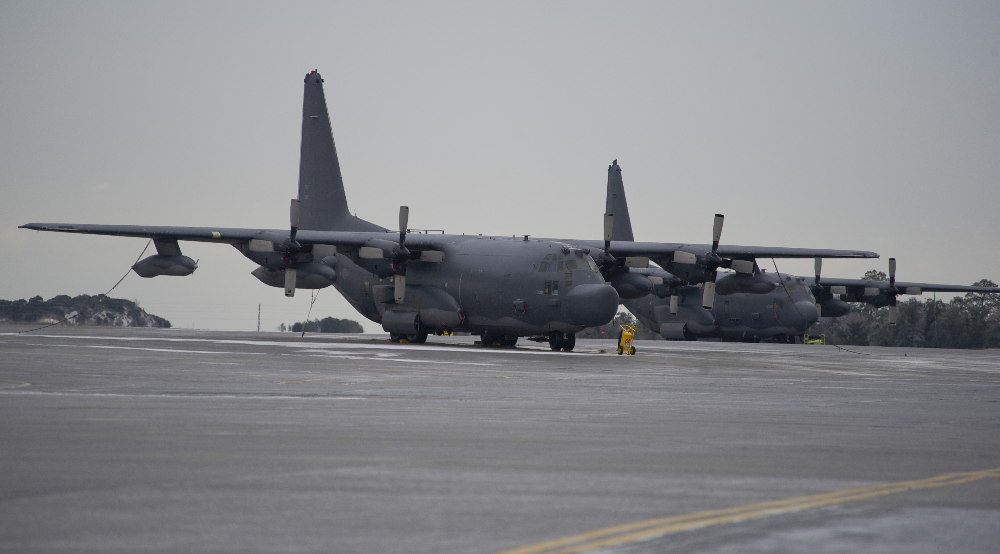 MC-130H Combat Talon II’s sit on the frozen flightline at Hurlburt Field, Fla., Jan. 29, 2014. Freezing rain accompanied by temperatures below 25 degrees, caused the base to shutdown due to hazardous road conditions. (U.S. Air Force Photo/ Staff Sgt. John Bainter)